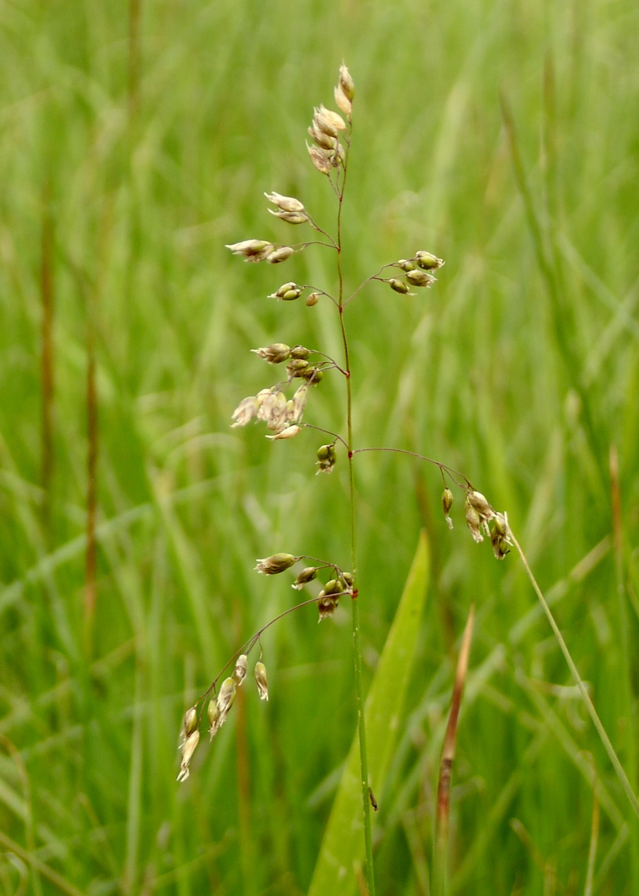 Hierochloe odorata in Recław near Wolin, NW Poland